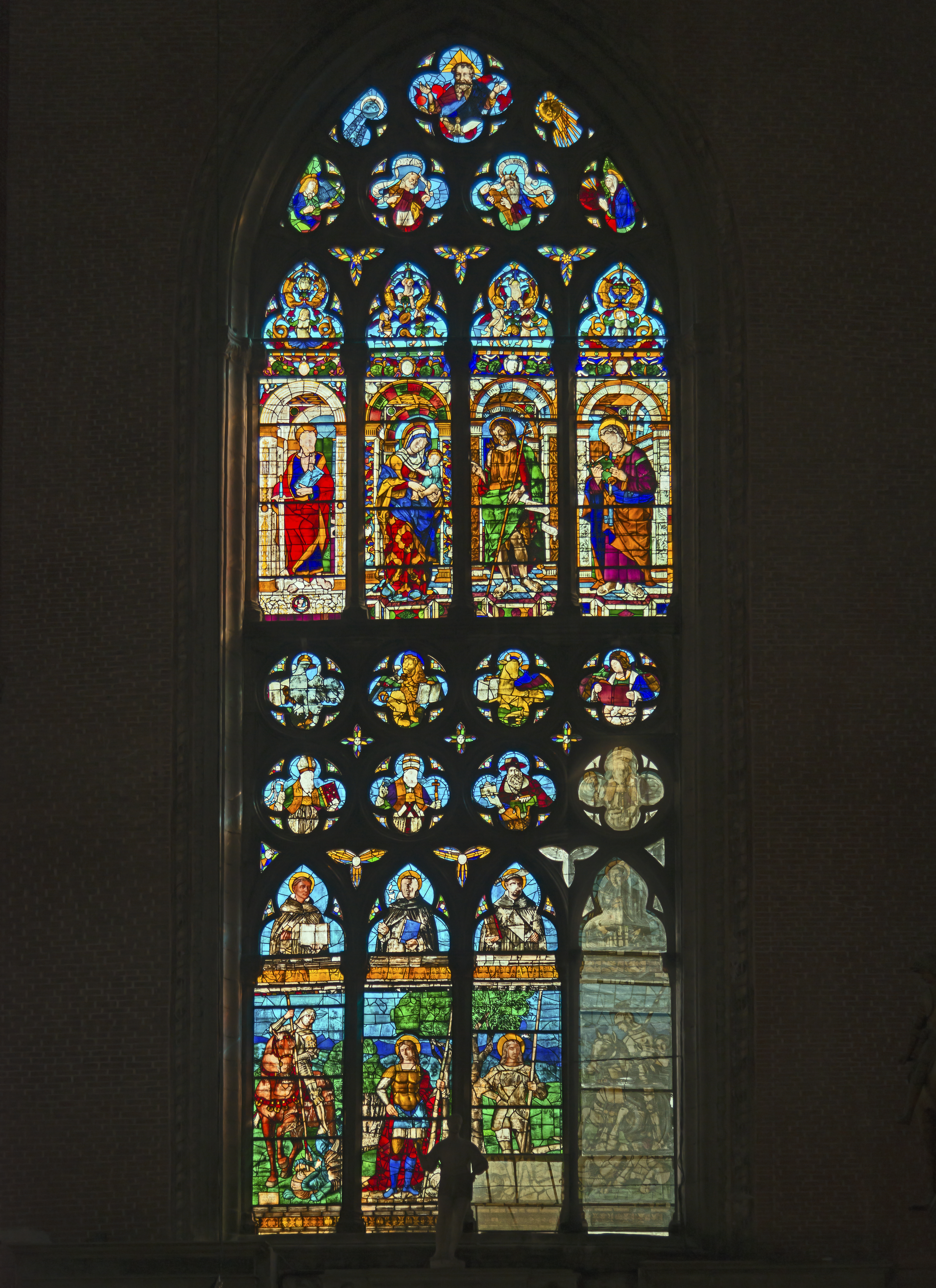 Santi Giovanni e Paolo in Venice. Stained glass window of right transept. Gothic window with stained glass started around 1495 by master glassmaker from Murano Gian Antonio da Lodi, on assigned cartons Bartolomeo Vivarini at Cima da Conegliano and irolamo Mocetto. Bartolomeo Vivarini painted St. Paul, and Mary. St. John the Baptist and St. Peter's at the top of the window was made by Cima da Conegliano. The lower registers are painted by Girolamo Mochetto. From top to bottom the windows are divided into six registers, representing the following scenes (left to right): the whole composition crowned Blessed be God the Father; 1) The Annunciation at the sides, and David and Isaiah in the center; 2) St. Paul, the Virgin and Child, St. John the Baptist and St. Peter; 3) The four evangelists with their symbols: the eagle (John), the lion (Mark), Taurus (Luke) and the angel (Matthew); 4) The holy Doctors of the Church: Ambrose, Gregory the Great, Jerome and Augustine Aurelius; 5) The busts of Dominican saints Vincent Ferrer, St. Dominic, Peter Martyr and St. Thomas Aquinas; 6) holy warriors: Theodore Tyrone (signed Mochetto) Saints John and Paul (the patron of the cathedral) and St. George